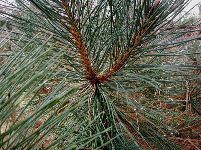 European Black Pine